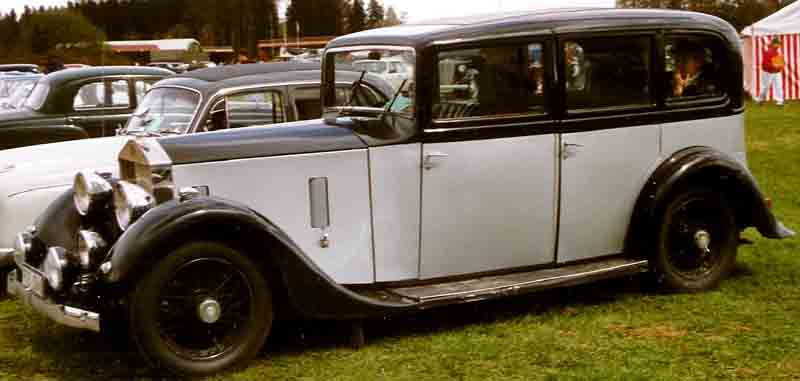 Rolls-Royce 25/30 Limousine